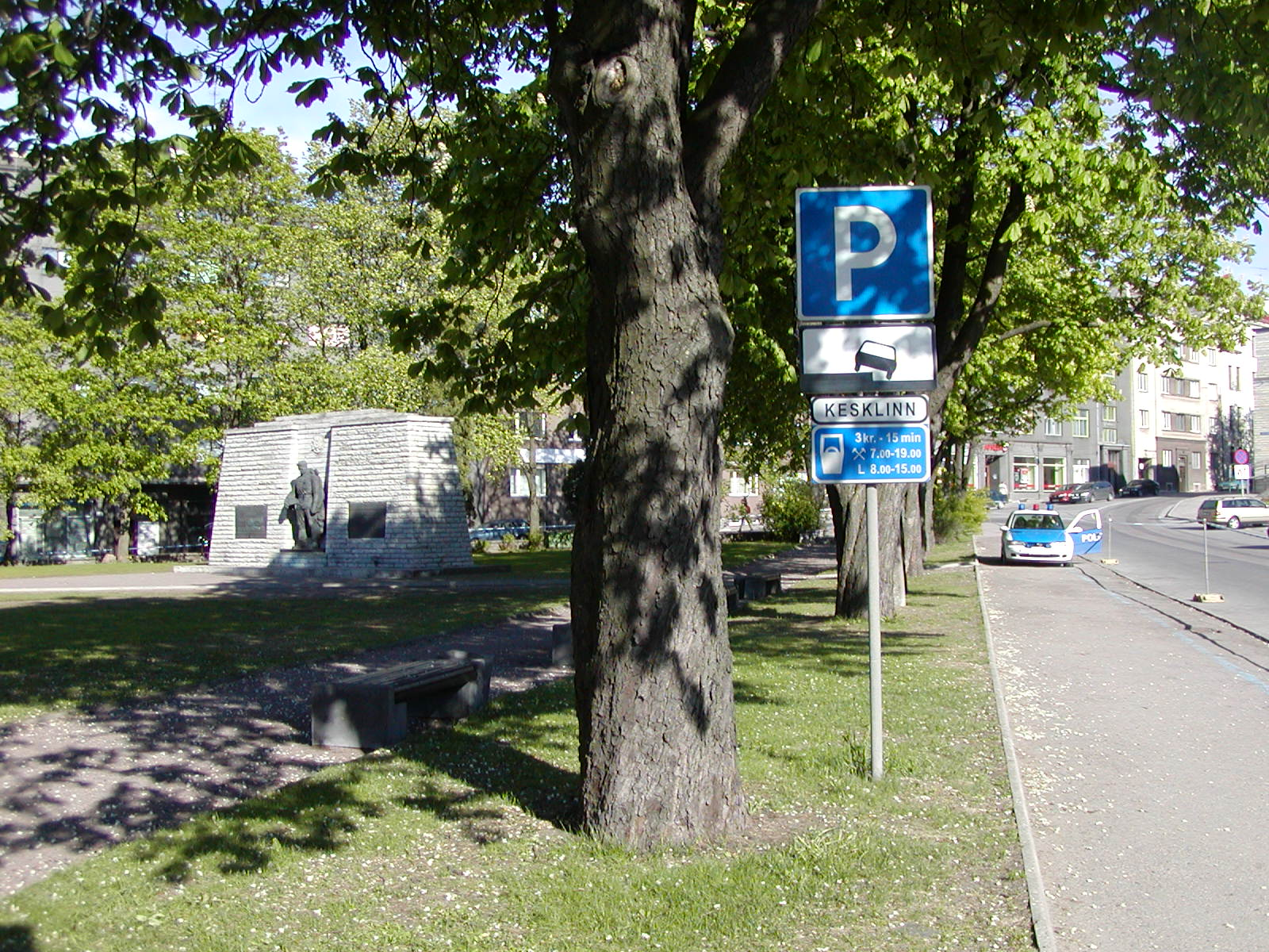 Bronze Soldier of Tallinn, World War II memoral commemorating the libration of Estonia from Nazism by Soviet and Estonian SSR forces. Quarantined off in May 2006 to prevent celebration of Victory in Europe Day.